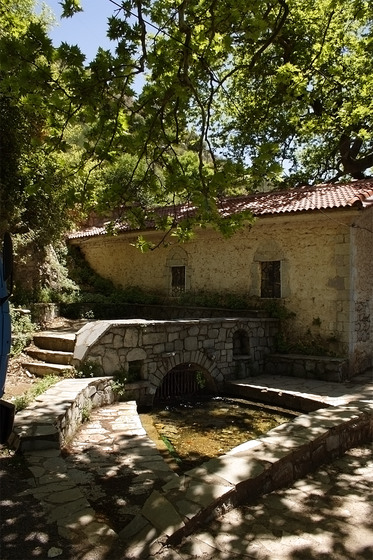 karst spring, West Arkadia, Peloponnese, south of Dimitsana in 855 m. The spring and the village are situated in the high wooded Arcadian’s mountain range Mainalo. The spring’s abundant water runs down the very steep escarpment of the gorge of river Lousios and ends up in the river. In pre-industrial time the water powered several mills. In 1997 the water power facilities were restored in their old functions instructive for the outdoor museum “Waterway Museum, Dimitsana”.